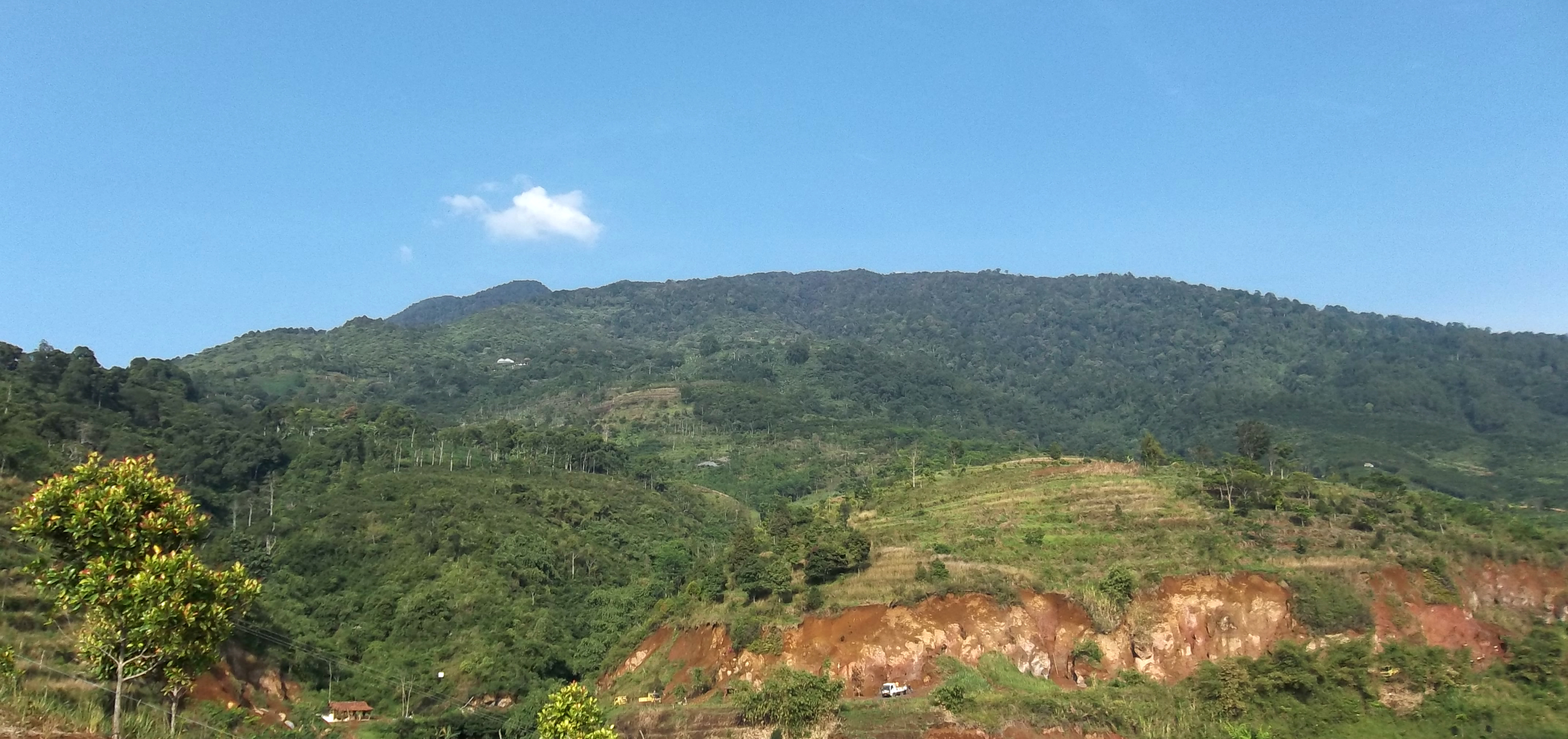 Looking toward the summit of Mount Salak from Cipelang, Bogor.